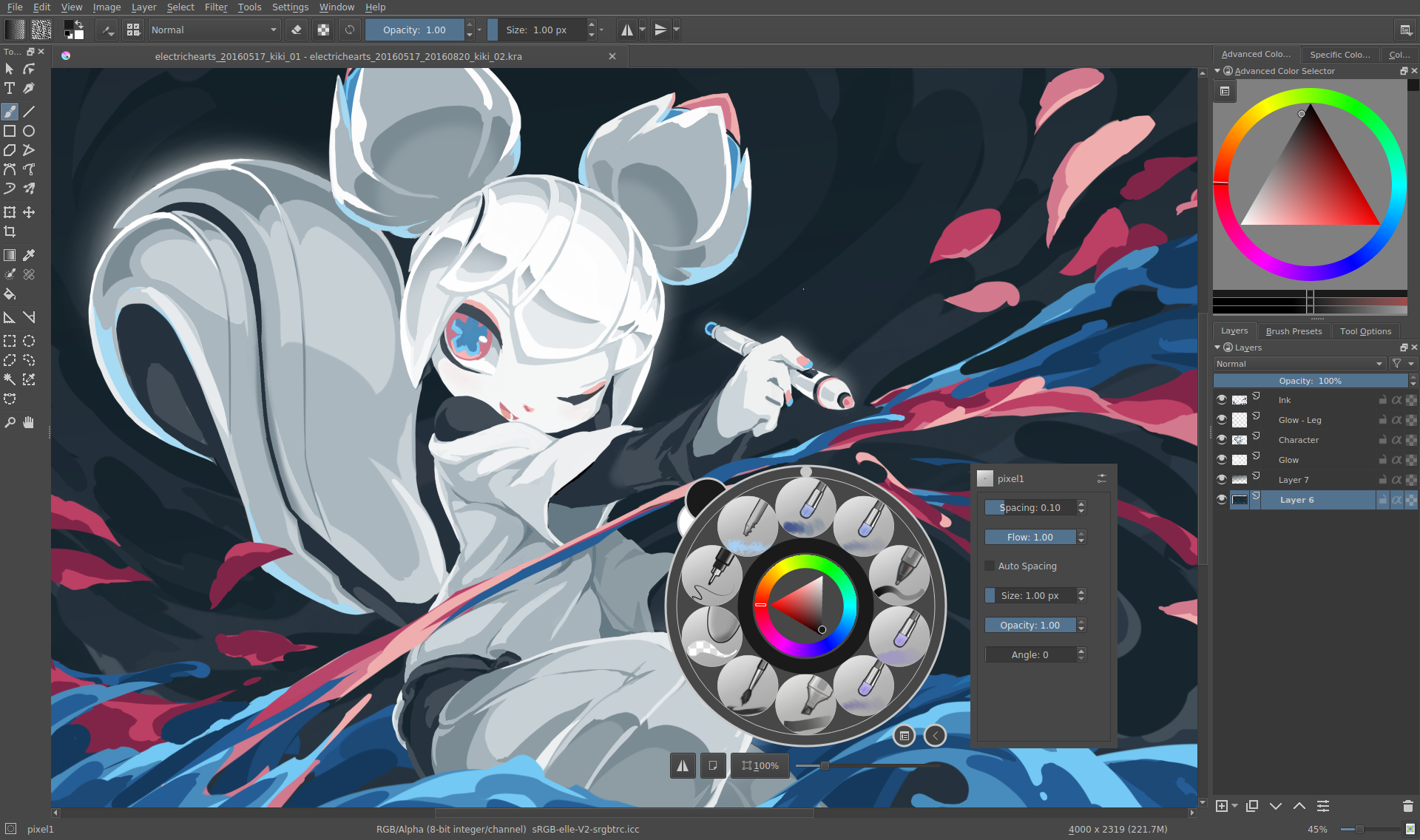 krita 4.0 pre-alpha interface screenshot with kiki.